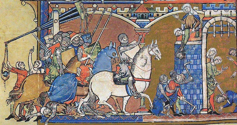 Joab pursues Sheba to the city of Abel.